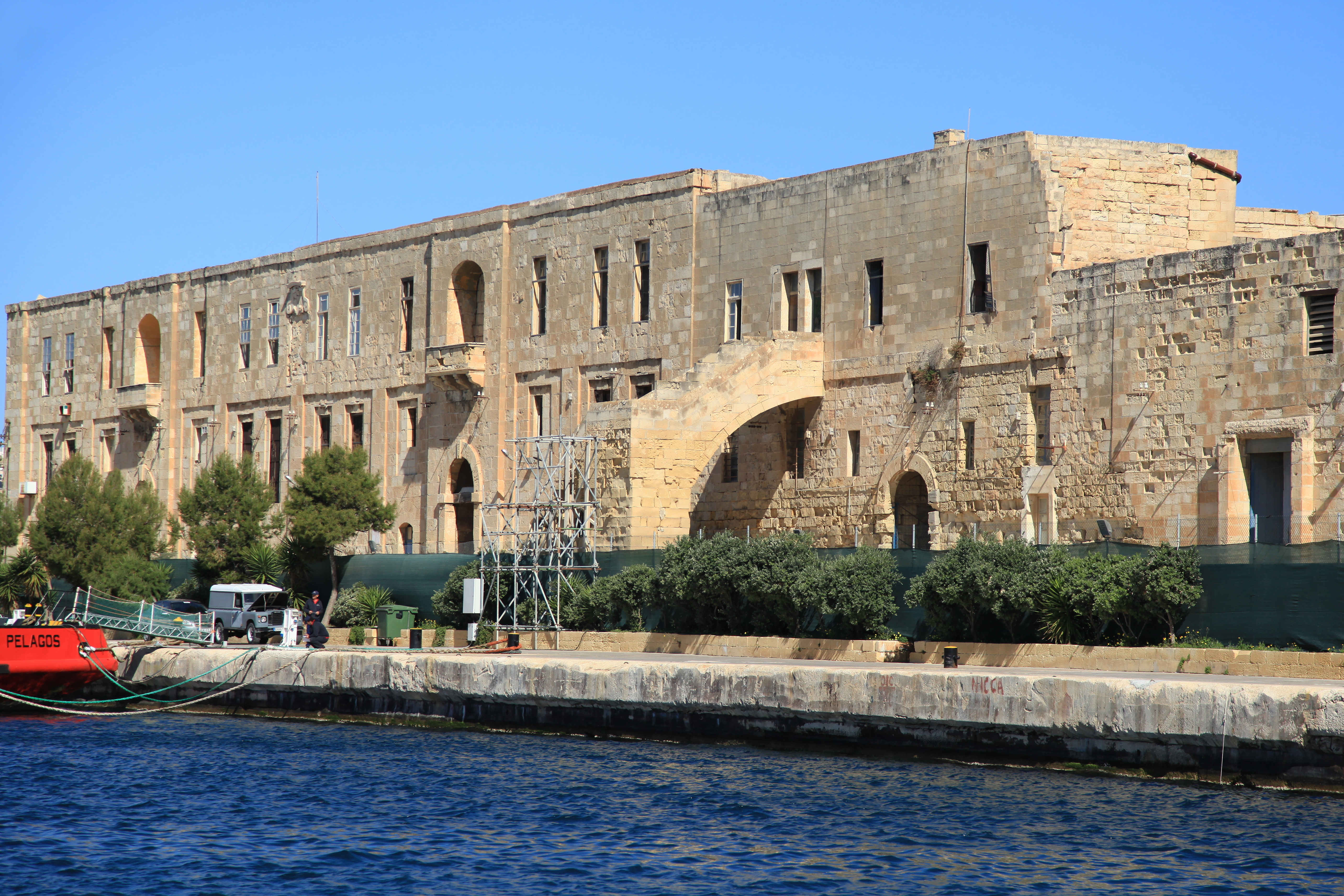 View from a Malta sightseeing two harbours cruise boat to the Lazzaretto of Manoel Island in Gżira, Malta